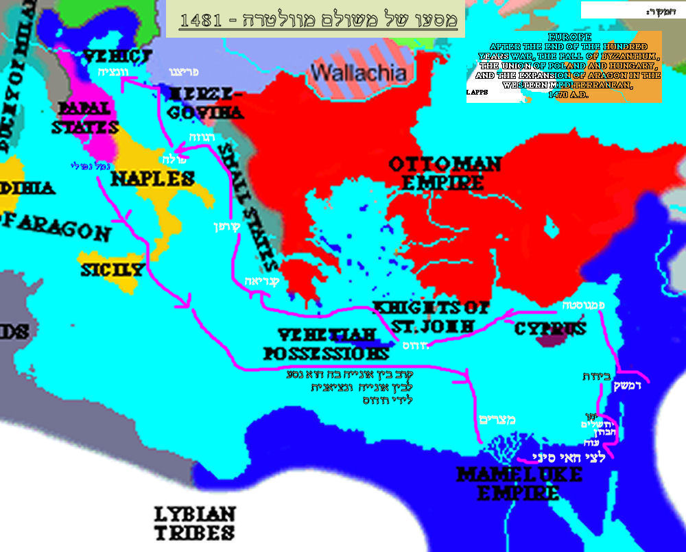 The Travel of Meshullam da Volterra